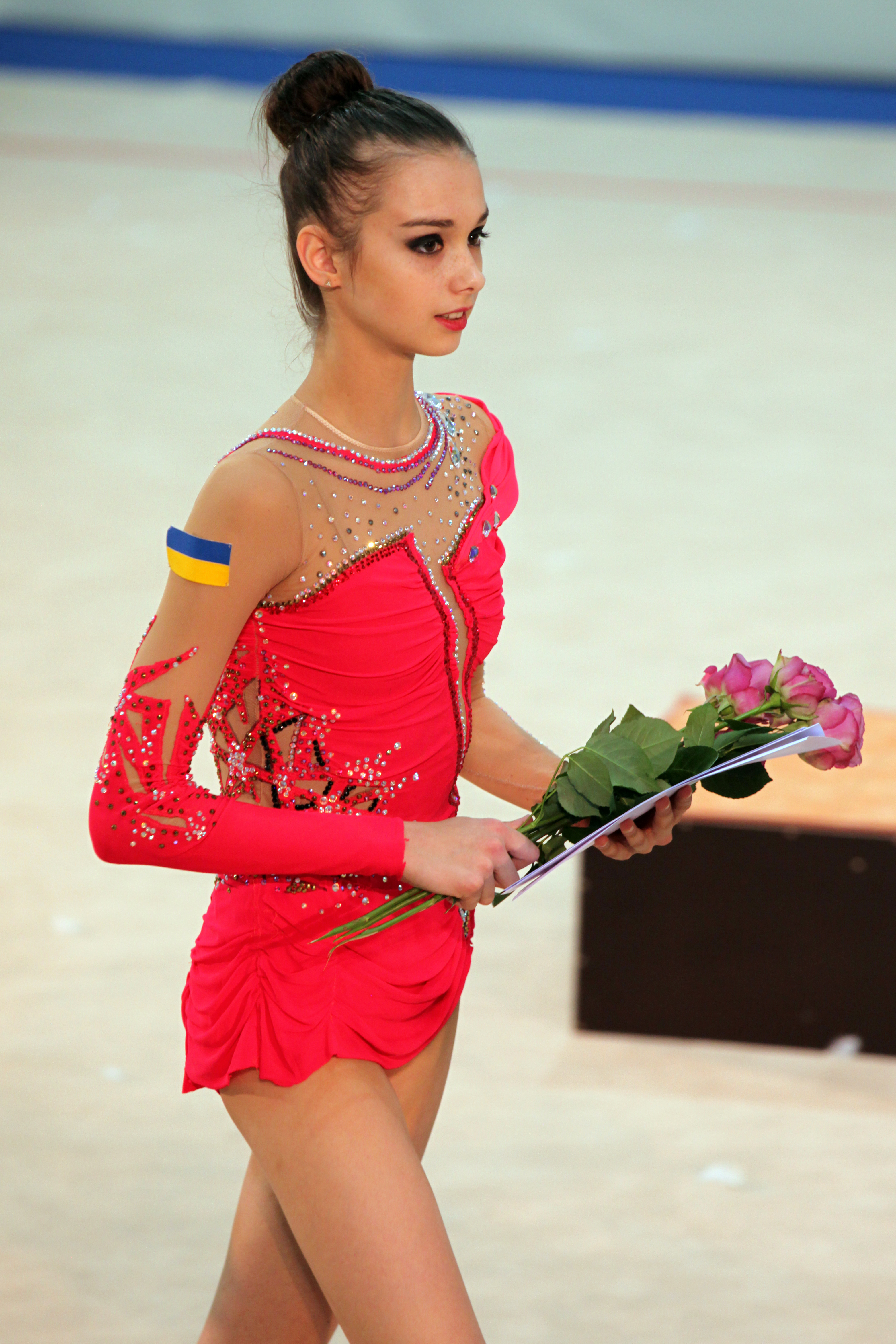 Eleonora Romanova (Элеонора Романова) at the rhythmic gymnastics Grand Prix final in Innsbruck